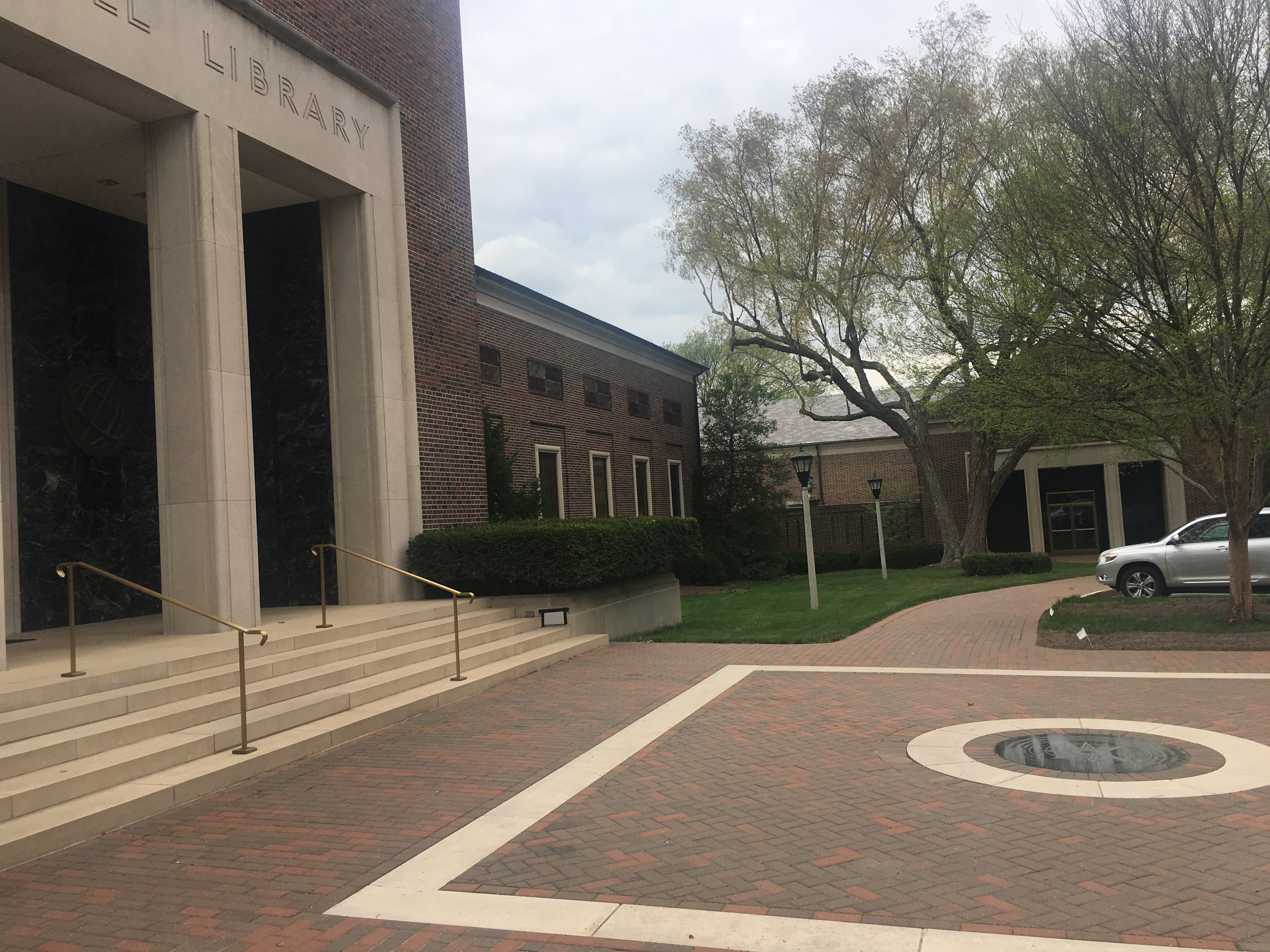 Linda Hall Library